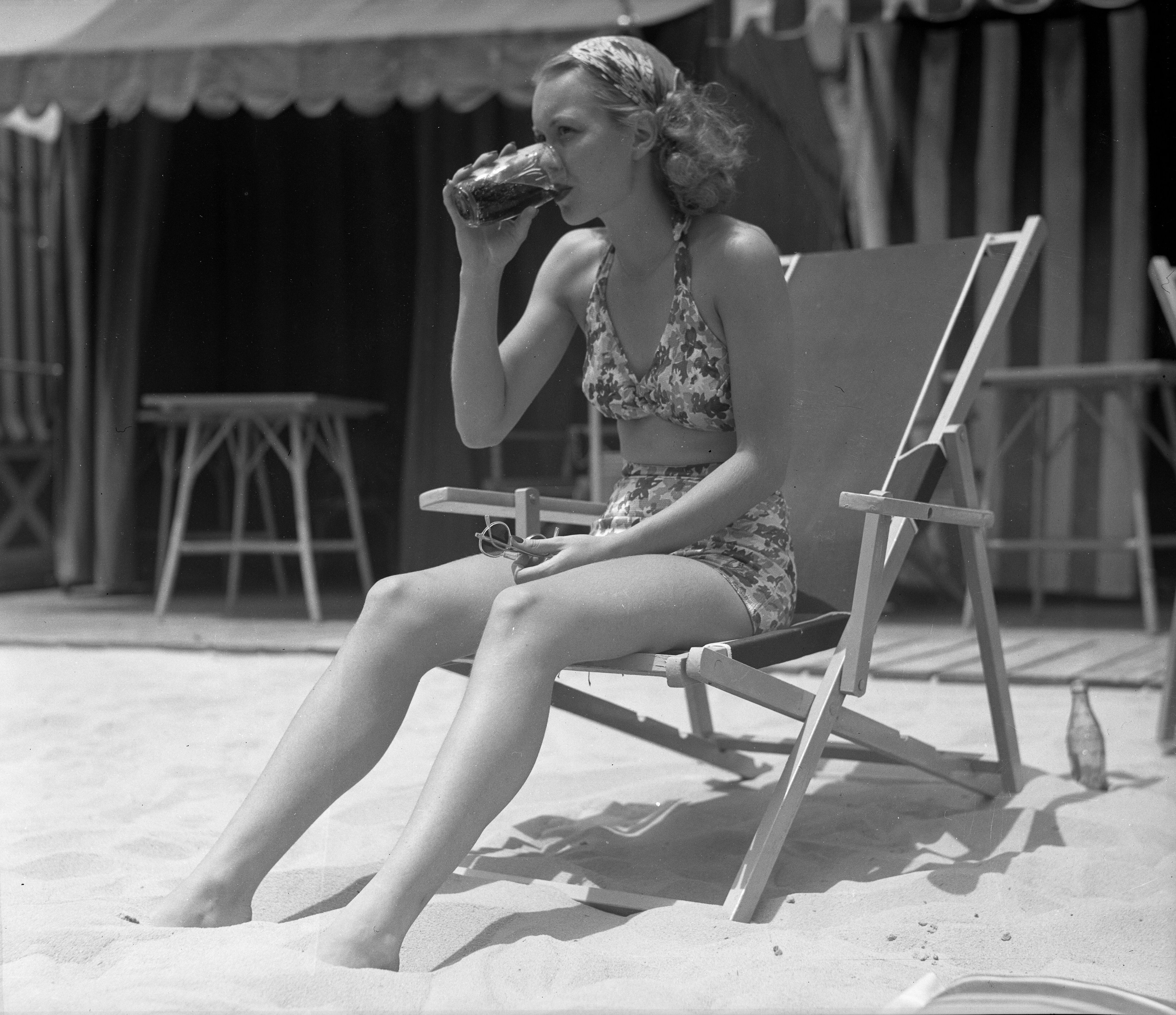 Title: Actress Jane Wyman sitting in lounge chair on California beach, 1935 depicted person: Jane Wyman (age: 18) Publication:Los Angeles Times Publication date:September 18, 1935